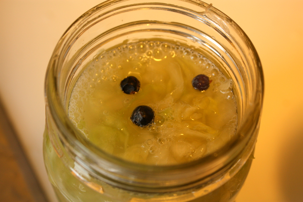 Juniper berries to flavor the cabbage ferment